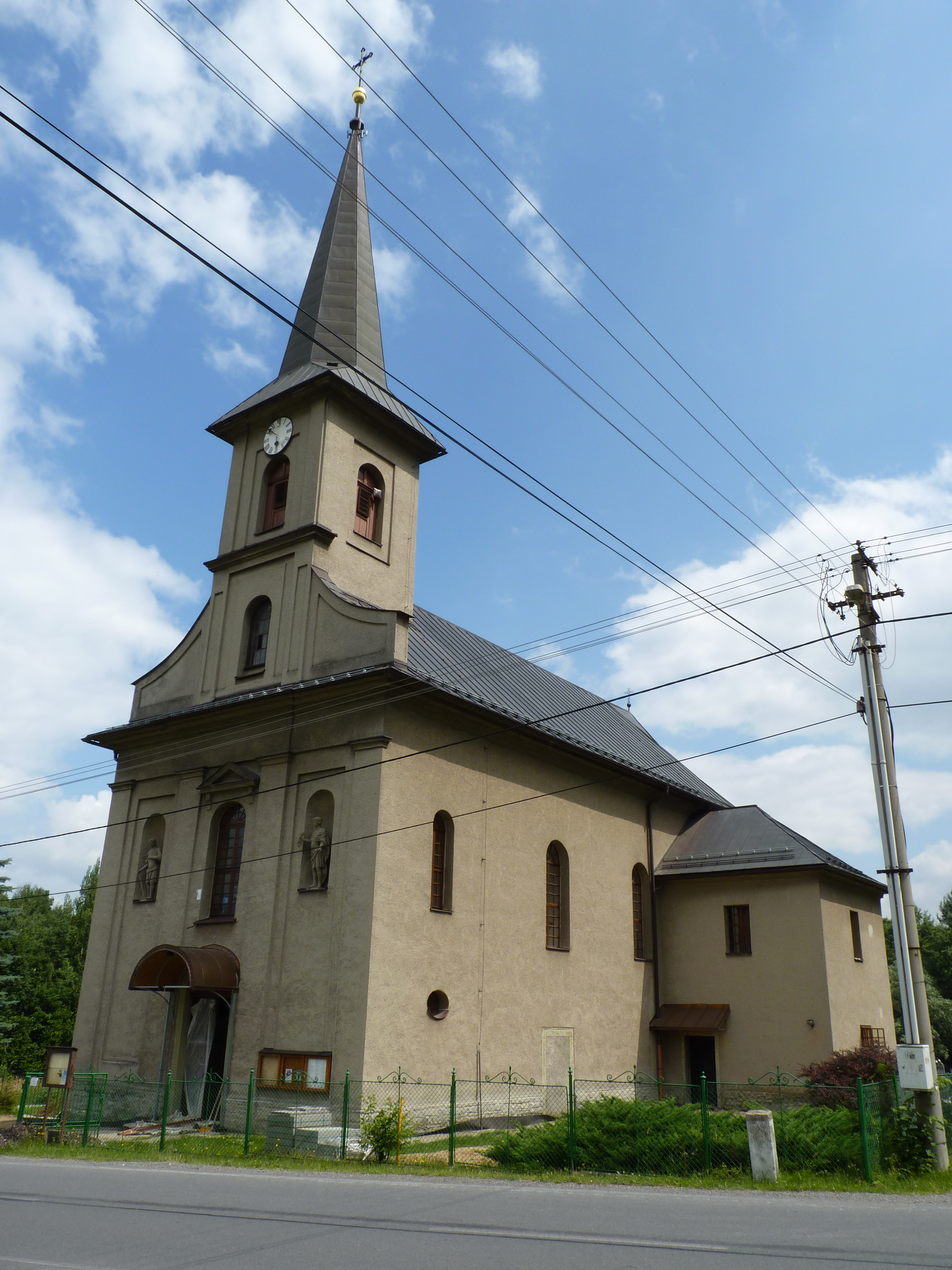 Dobratice. Frýdek-Místek District, Moravian-Silesian Region, Czech Republic